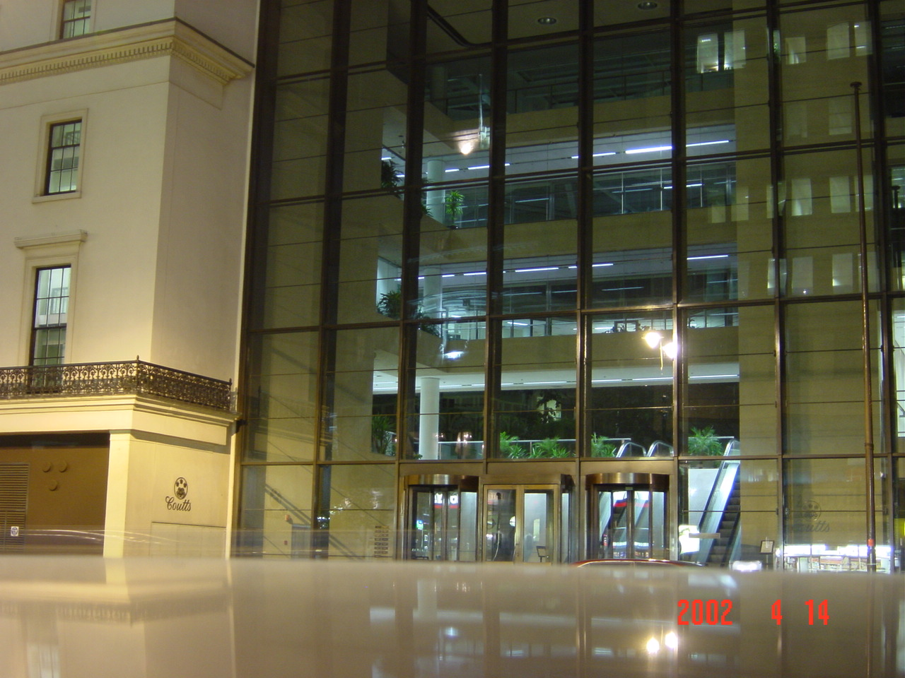 Coutts & Co Headquarters in the Strand, London